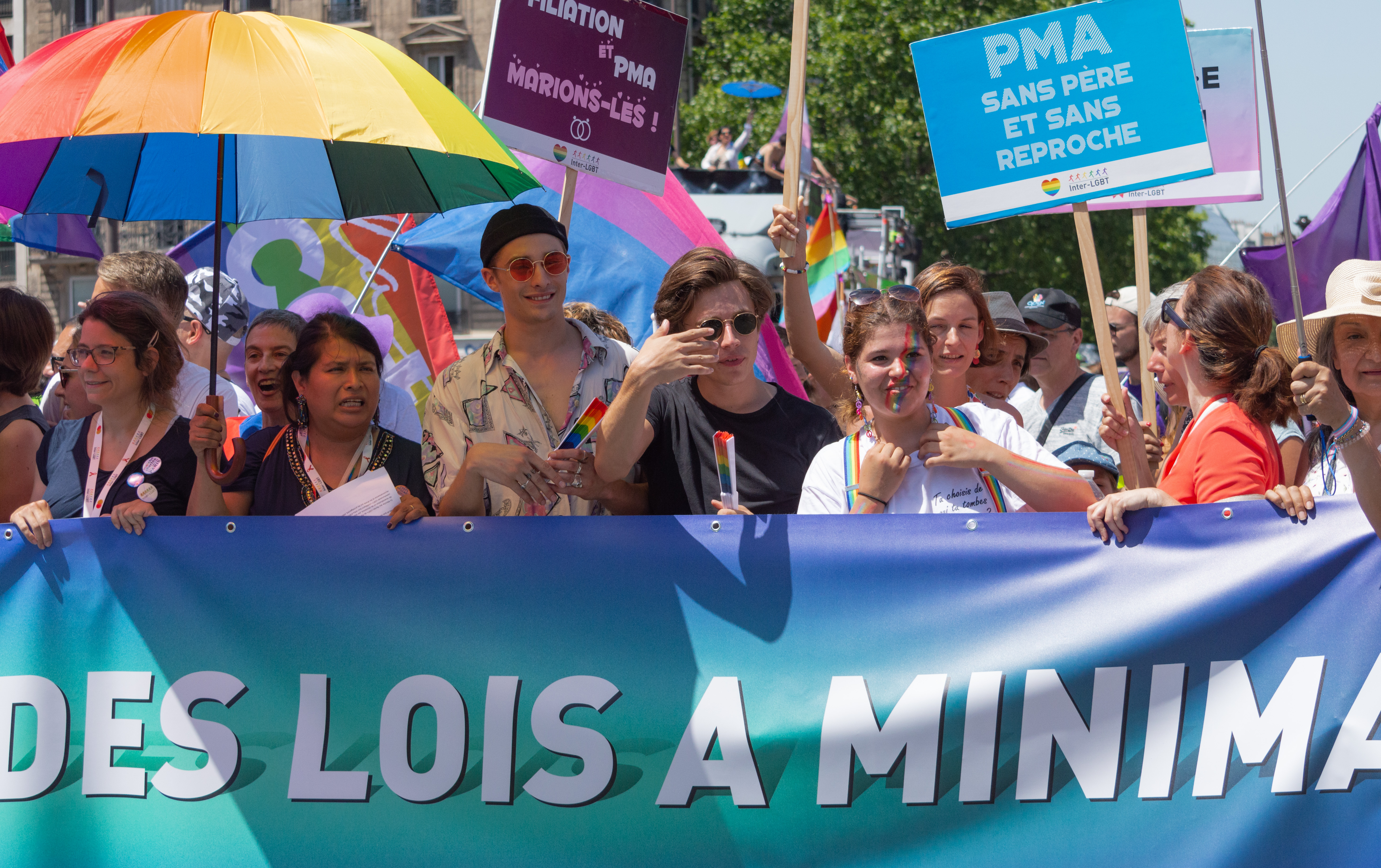 Paris Pride Parade 2019. AnnotationsThis image is annotated: View the annotations at Commons